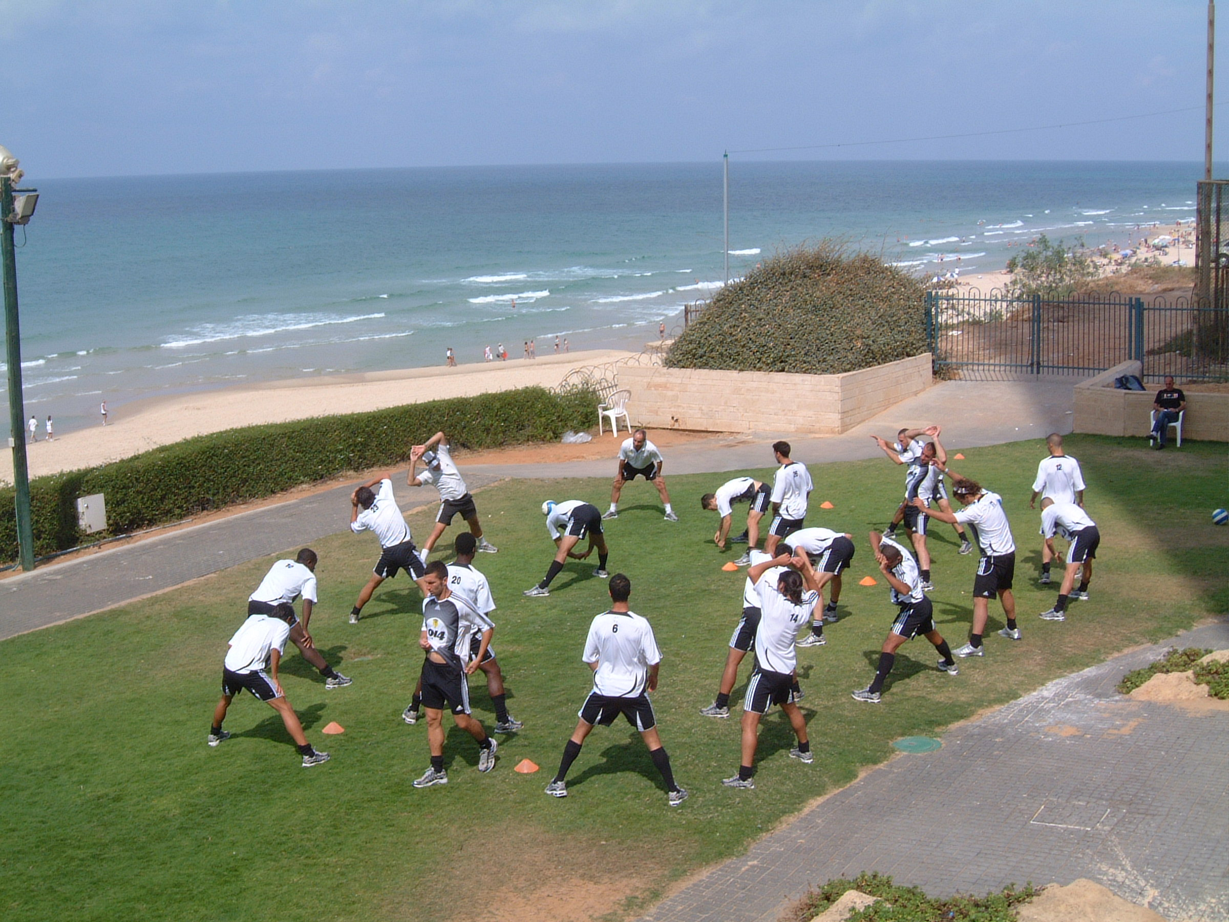 Beitar Jerusalem F.C. squad training at the Daniel Hotel Herzliya, Israel while Osvaldo Ardiles was manager.